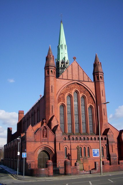 St Dunstan's Church, Edge Hill, Liverpool.